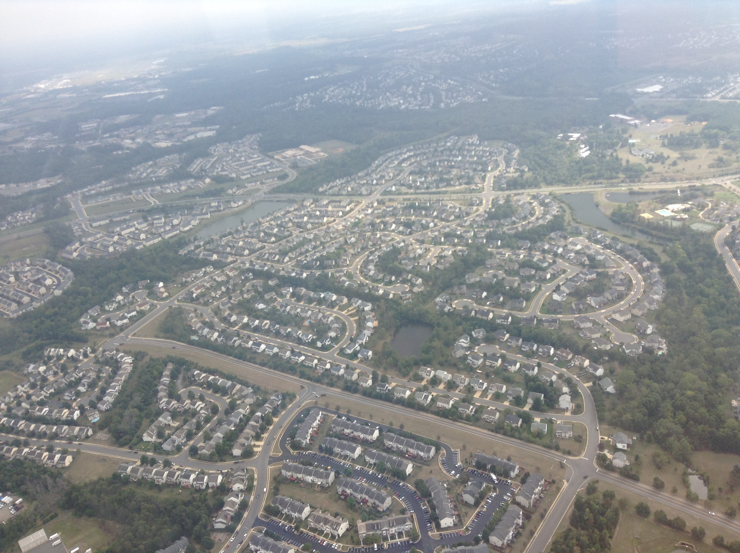 A birds eye view of a residential section of Bristow Virginia.